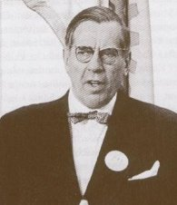 Photograph of the Finnish composer Felix Krohn (1898–1963).